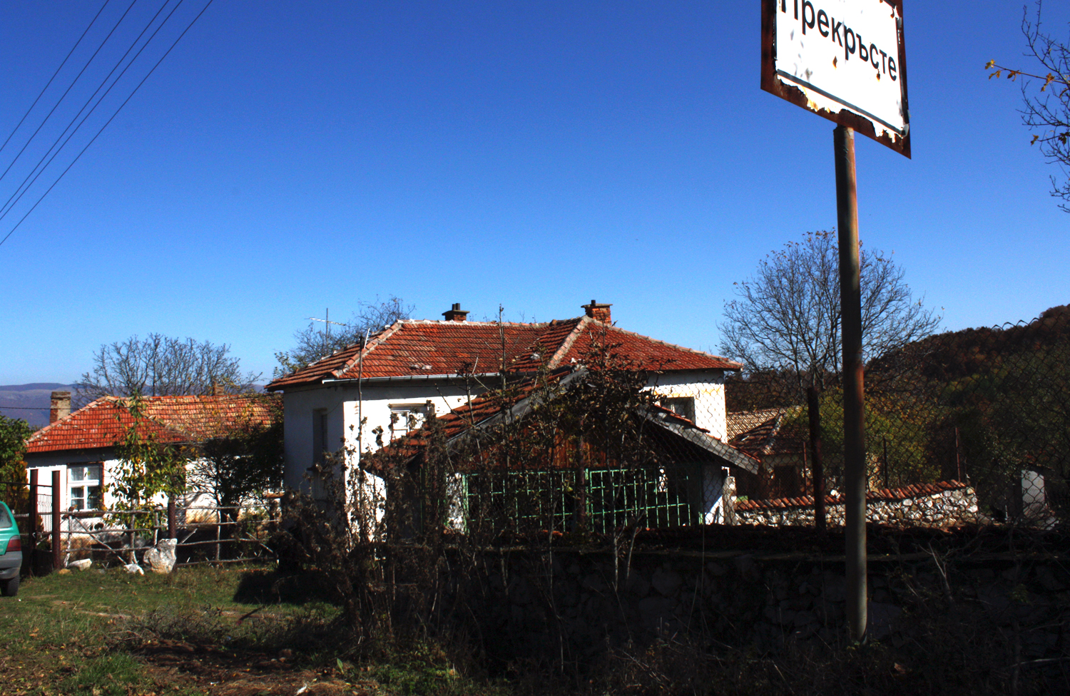 Entrance to Prekraste village from Dragoman